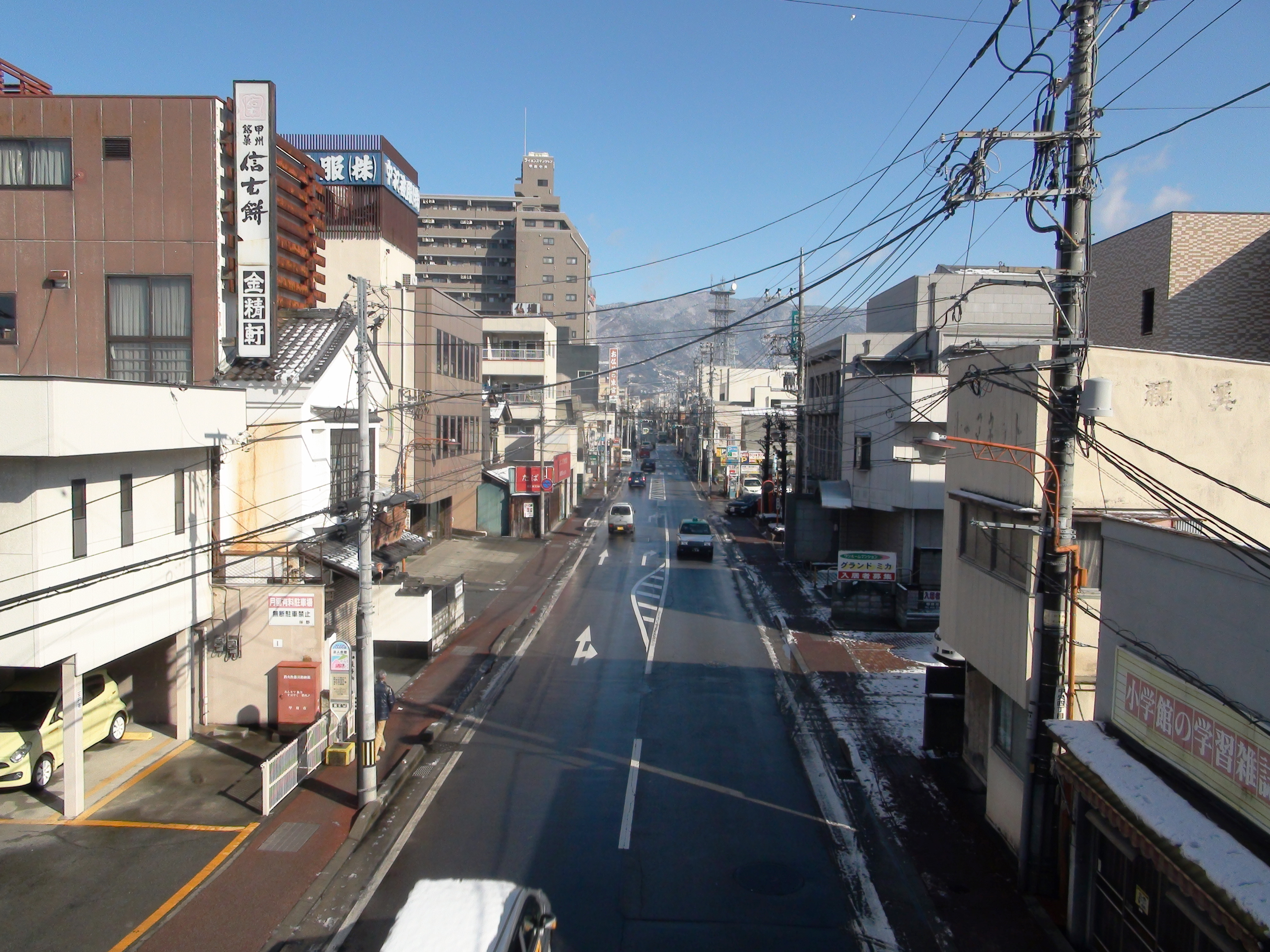 Yuki St. Midori-Machi Kofu-City